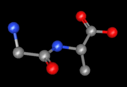 dipeptid - Ball and stick molecular graphics created by program Ghemical